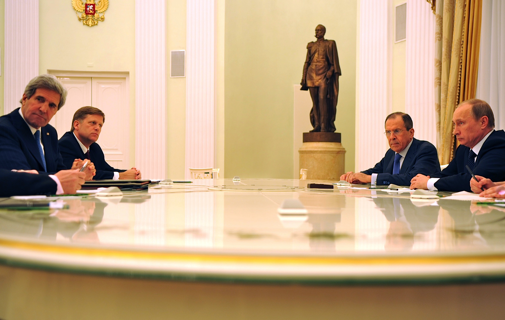 U.S. Secretary of State John Kerry, accompanied by U.S. Ambassador to Russia Michael McFaul meets with Russian President Vladimir Putin and Russian Foreign Minister Sergey Lavrov in Moscow on May 7, 2013.